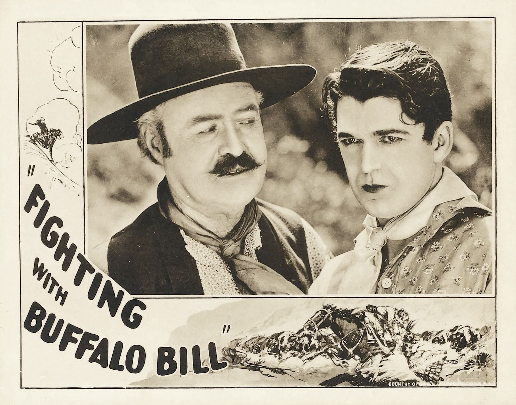 Fighting With Buffalo Bill is a 1926 American Western film serial directed by Ray Taylor for Universal Pictures. This is a lobby card for the film.